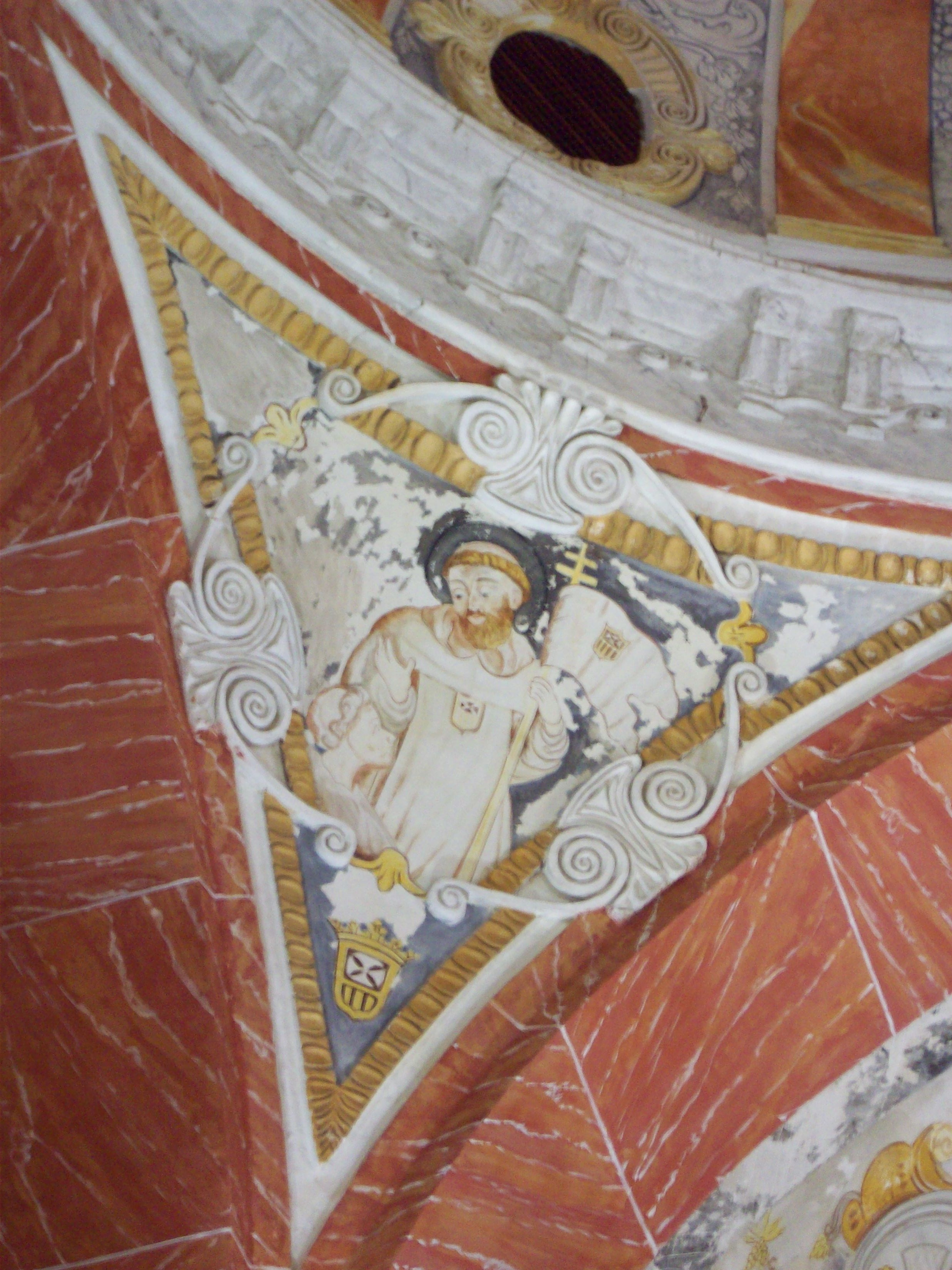 pechinas